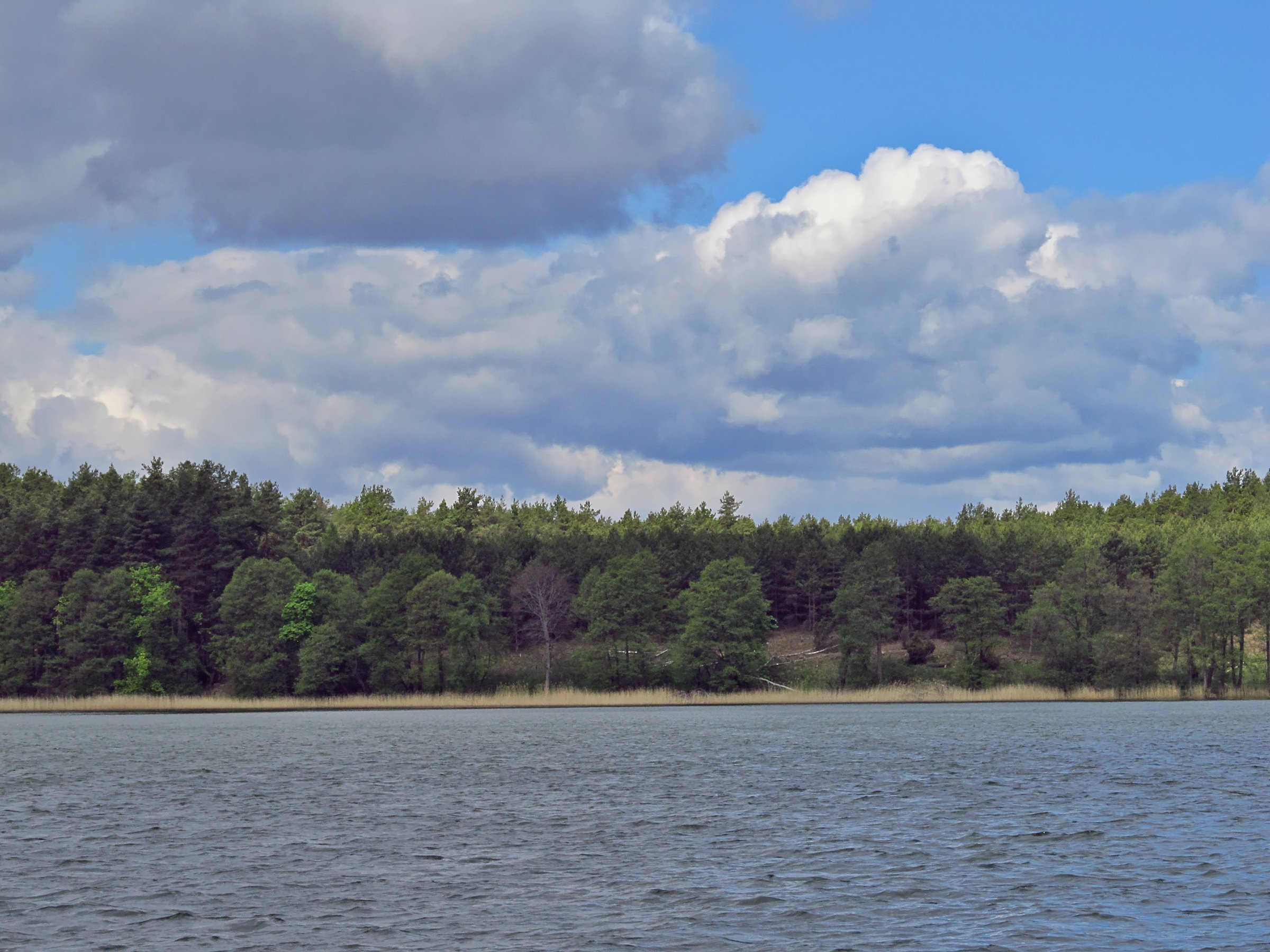 The shore of the Ostrów Mały island